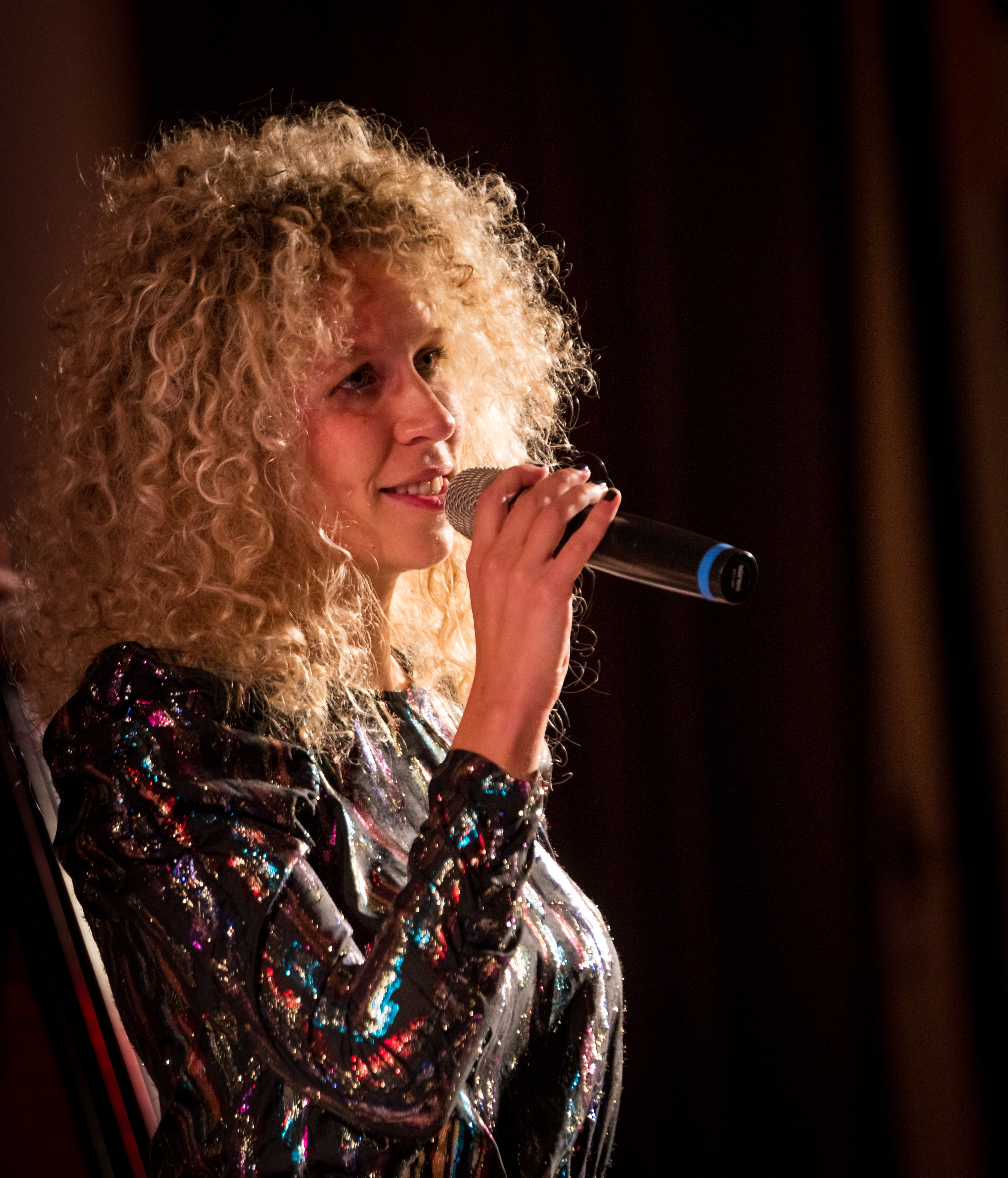 Maya Fadeeva - Leverkusener Jazztage 2016